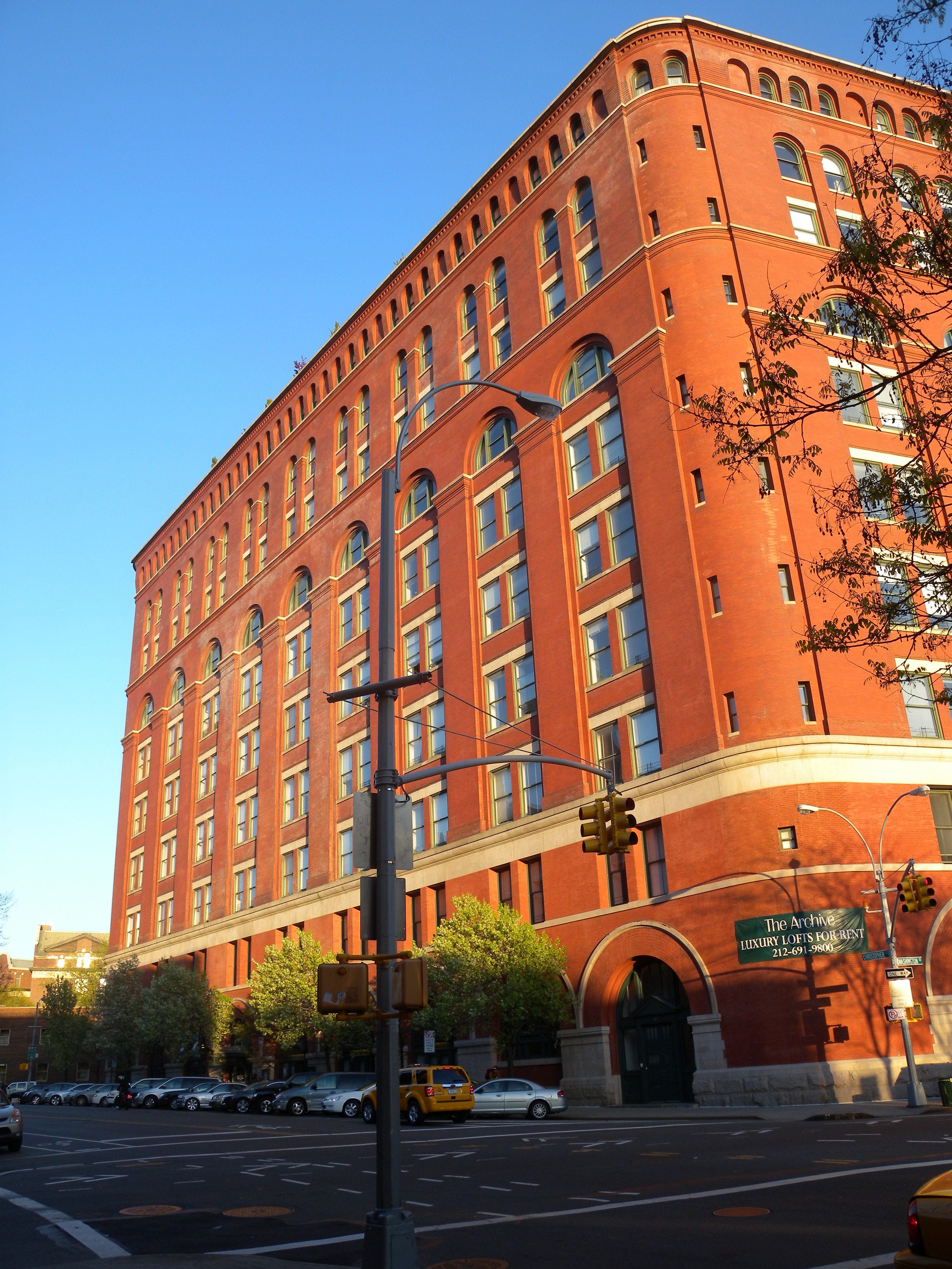 Looking east, shortly before sunset of a clear day, up Christopher Street and across Washington Street at the former United States Appraiser Store, later US Federal Building, used as a telephone exchange in GC Scott "They Might be Giants", now The Archive at 666 Greenwich Street, an apartment house.